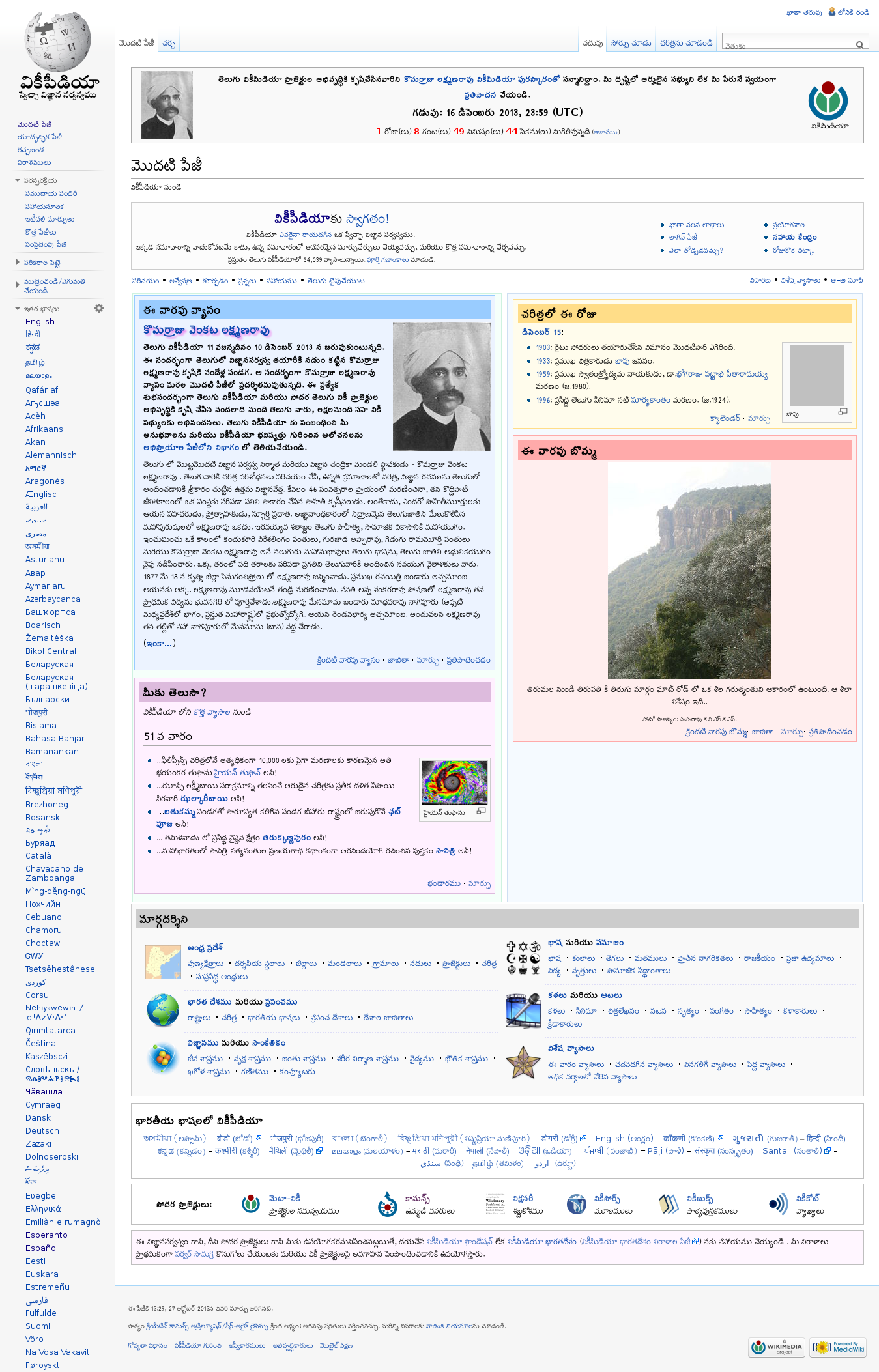 Screenshot of the main page of Telugu Wikipedia, taken on December 15, 2013